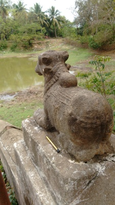 Panaiyur soundaresvarar temple திருப்பனையூர் சௌந்தரேஸ்வரர் கோயில்